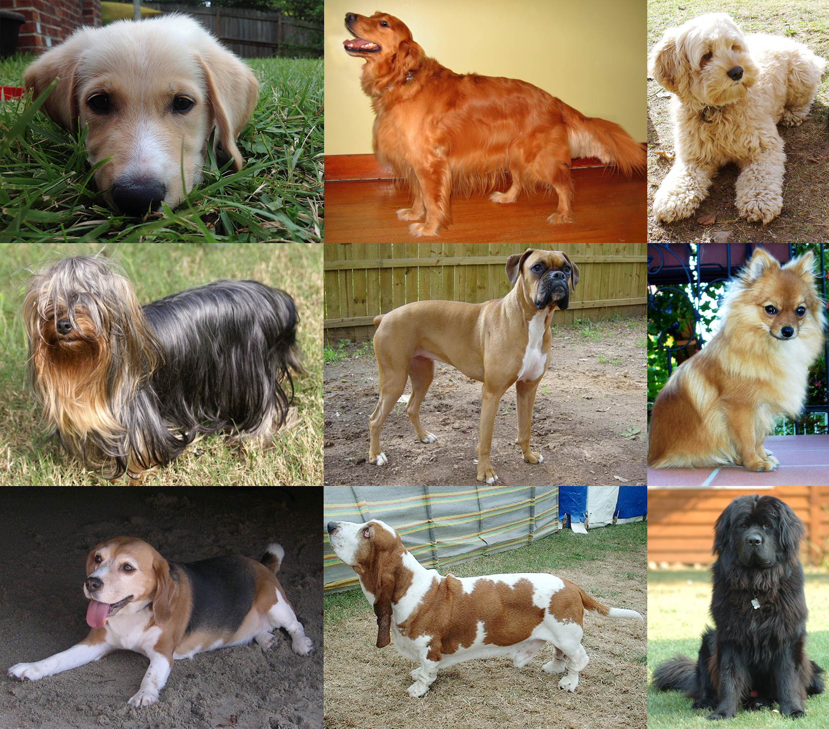 Montage of nine dogs